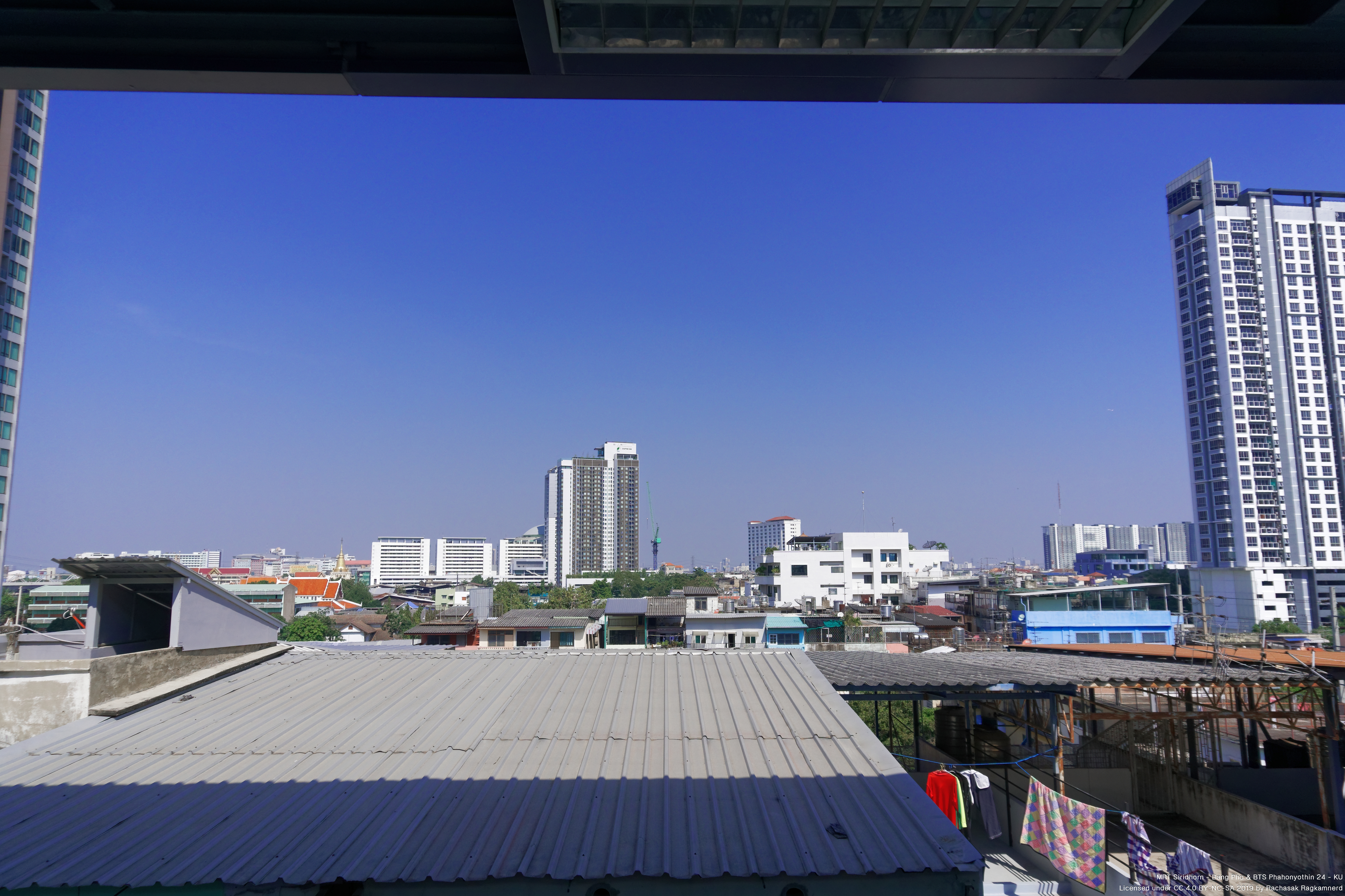 MRT Bang Pho - Platform view